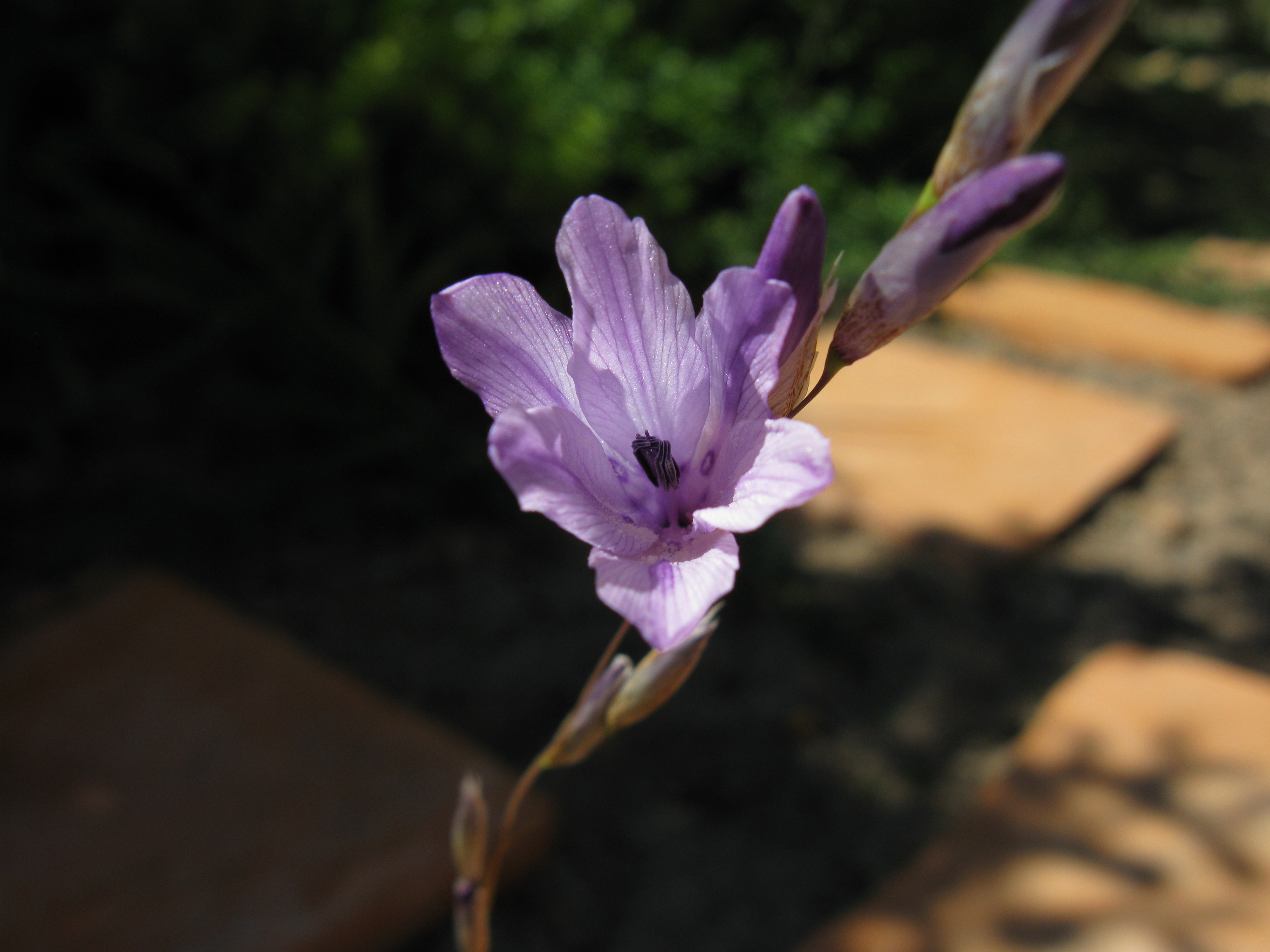 A pretty plant, useful in the garden, evergreen, undemanding, but smaller than most Dieramas, and a less gracefully penduous scape.